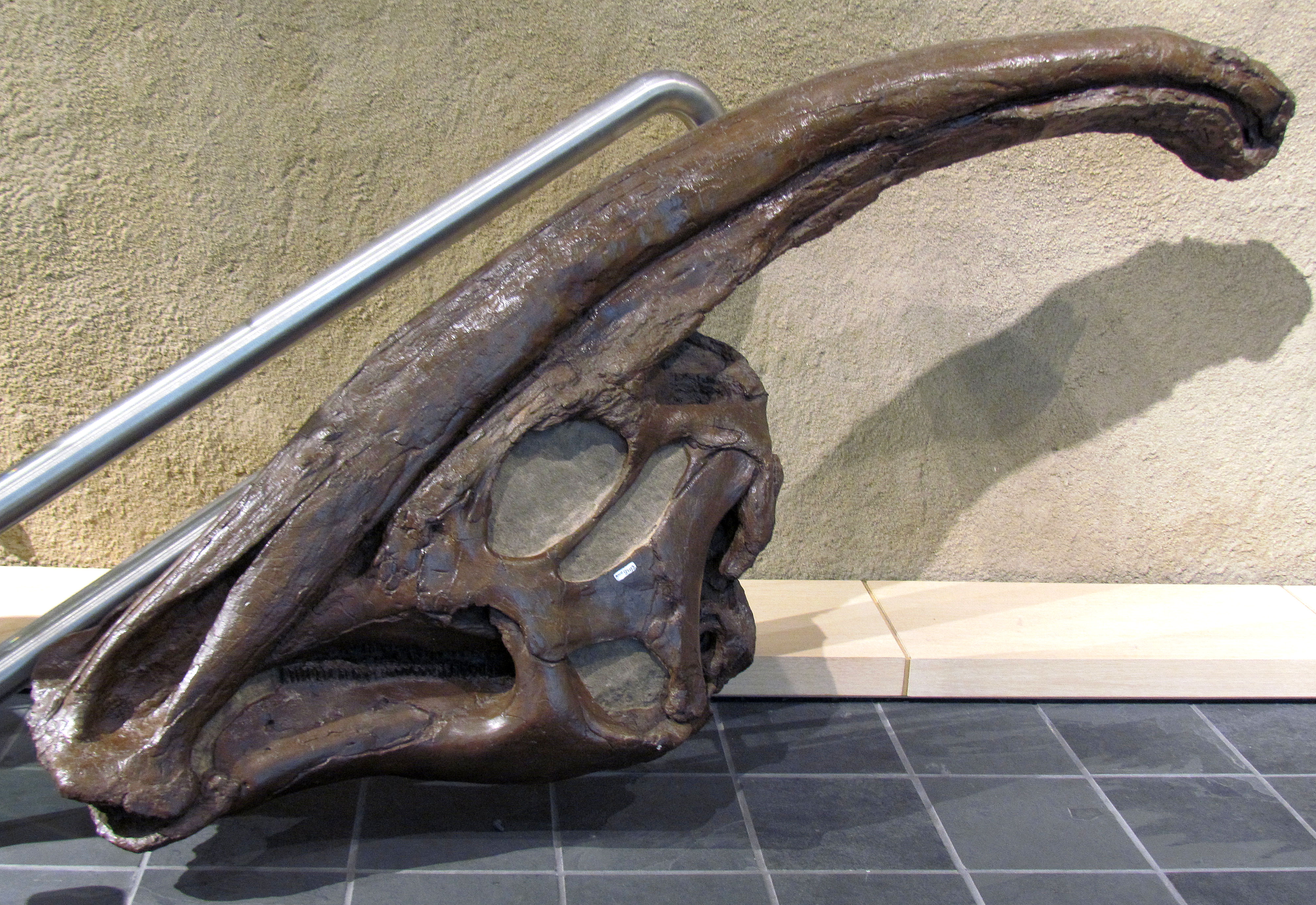 Head of Parasaurolophus at Canadian Museum of Nature, Ottawa, Ontario